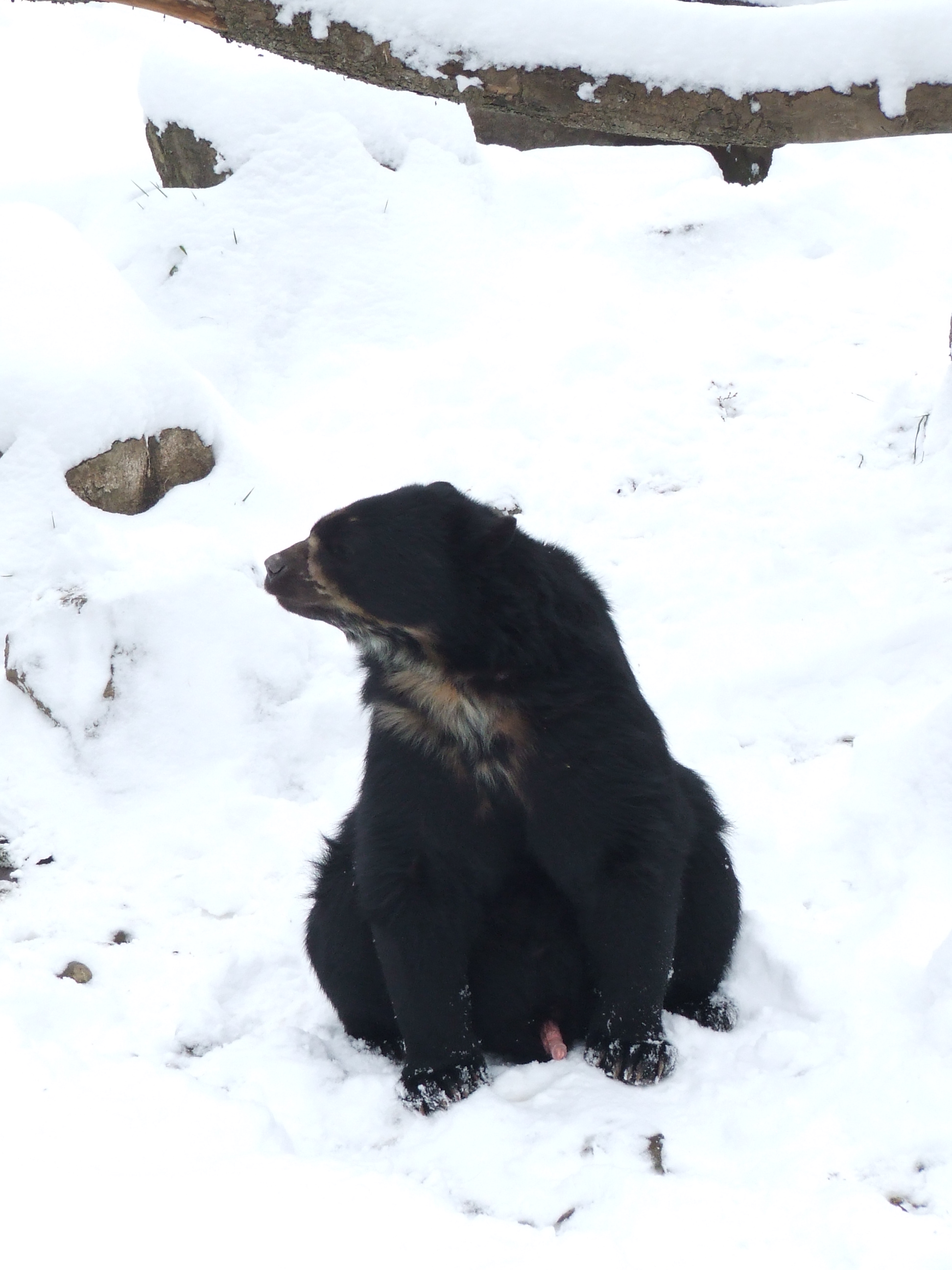 photography of Tremarcos onatus (ursus) male in old zoologic Parc de la Tête d'Or. This potential class is bear and Tremarcos ornatus.